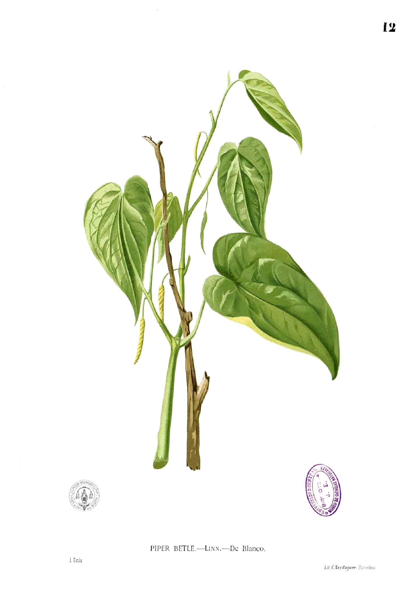 Plate from book